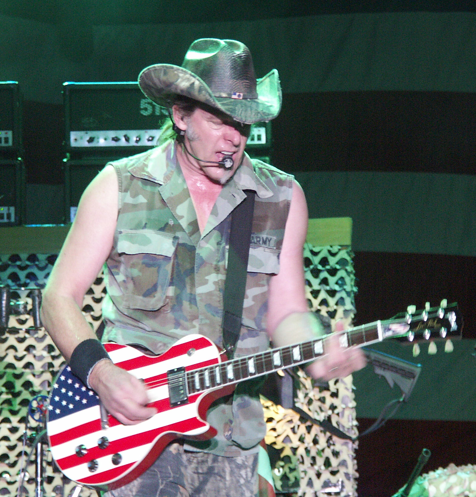 Taken at Ted Concert June 16, 2007 in West Fargo, ND. Photo by Matt Becker